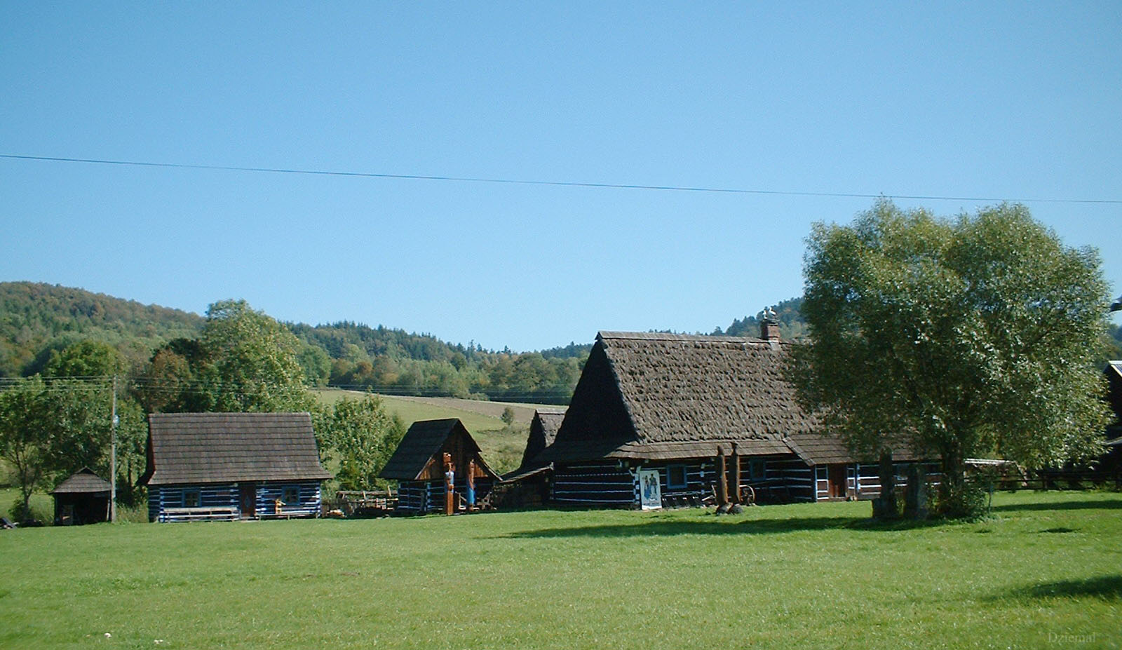 Open air museum of Lemko culture in Żyndranowa, Poland